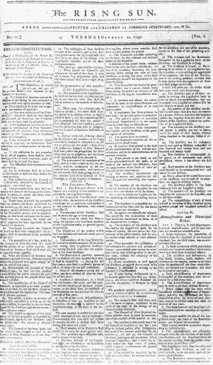 The Rising Sun; Date: 10-20-1795; (Keene, New Hampshire)